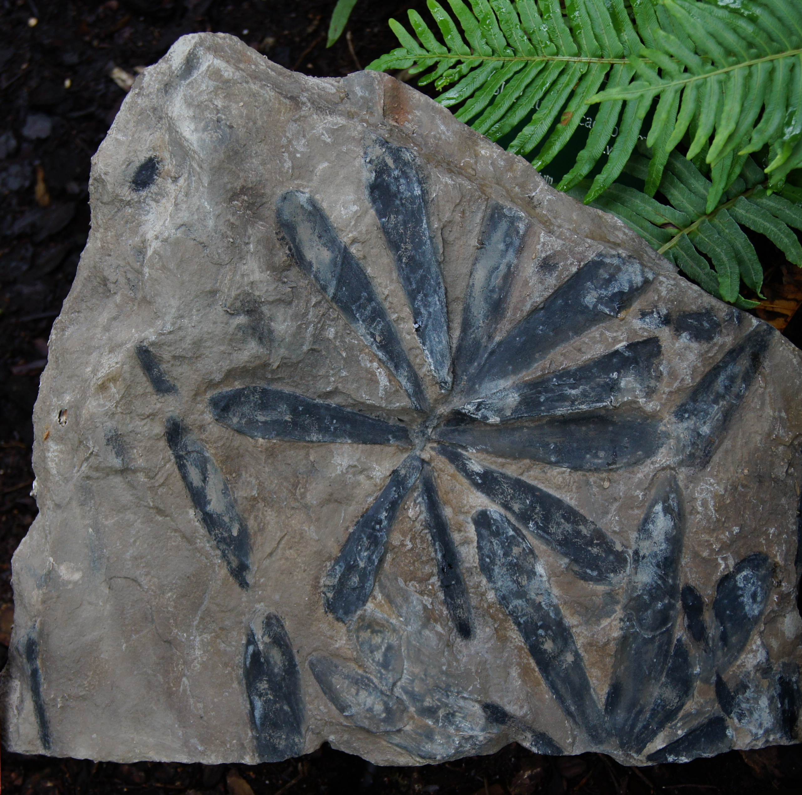 Cropped image of taxon in file name